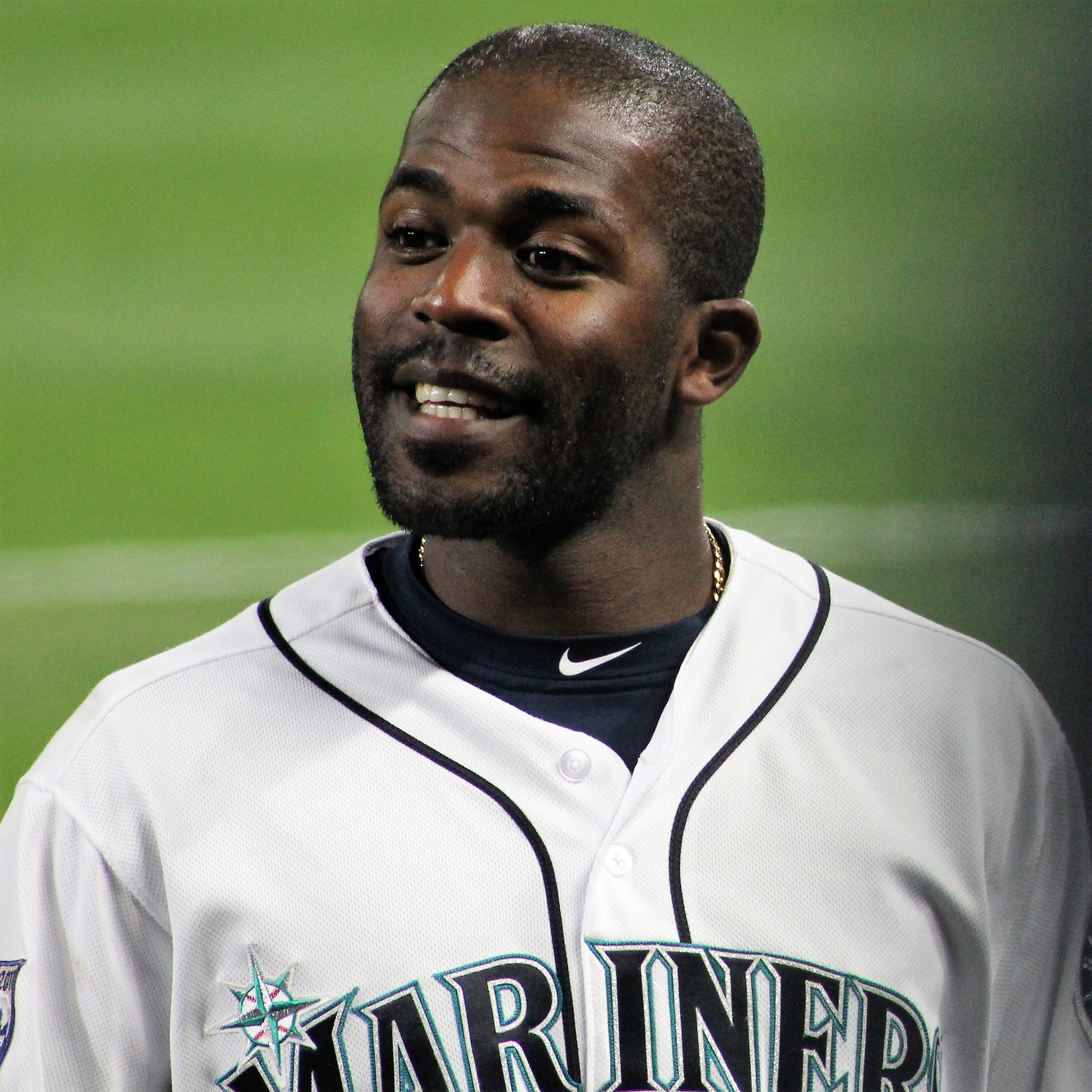 Professional baseball player Guillermo Heredia during a May 2017 game in Seattle.